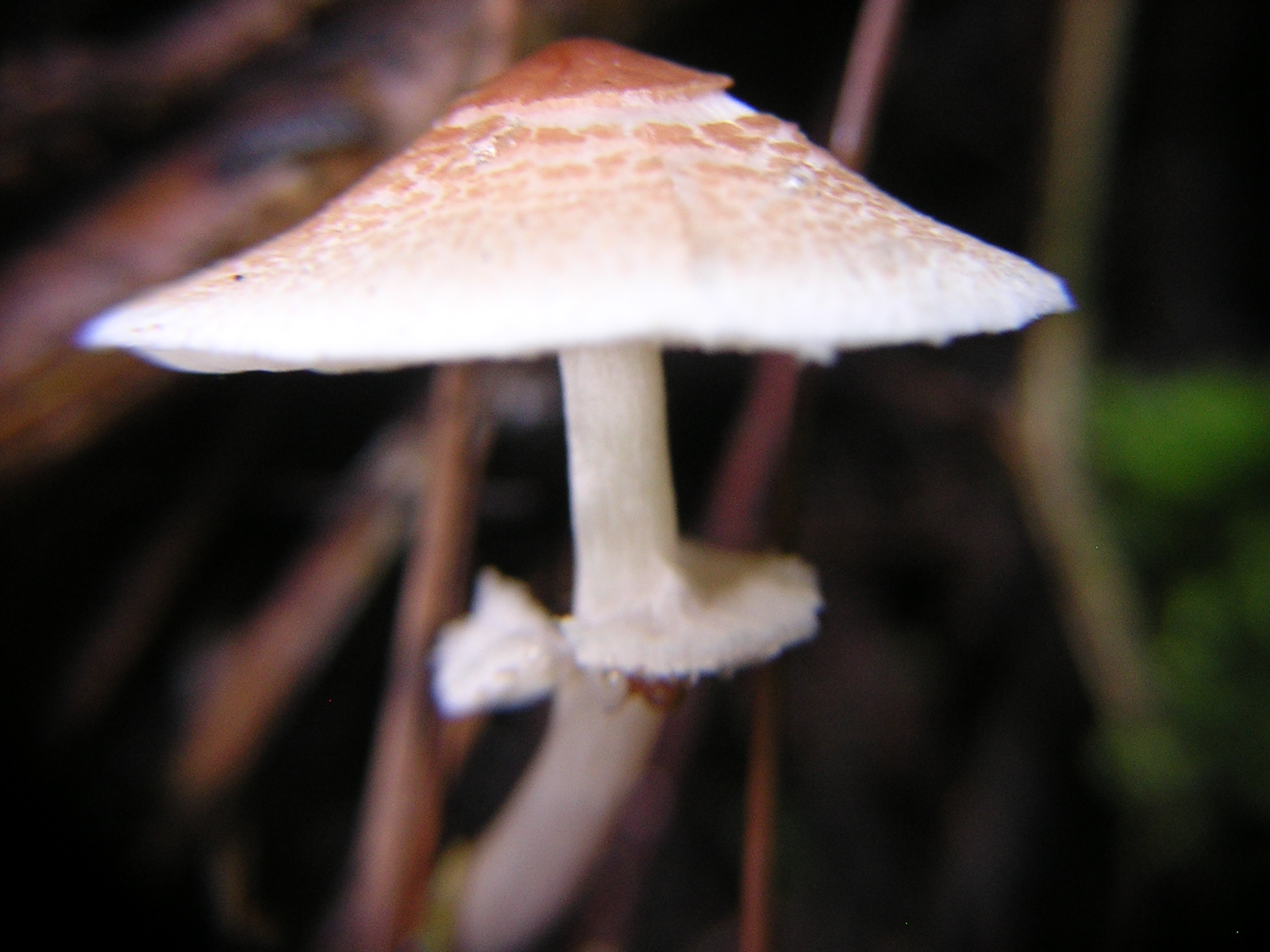 Lepiota cristata (Bolton) P. Kumm. Image location: Kalatope wildlife Sanctuary, Dalhousie, Himachal Pradesh, India Recognized by sight For more information about this, see the observation page at Mushroom Observer.